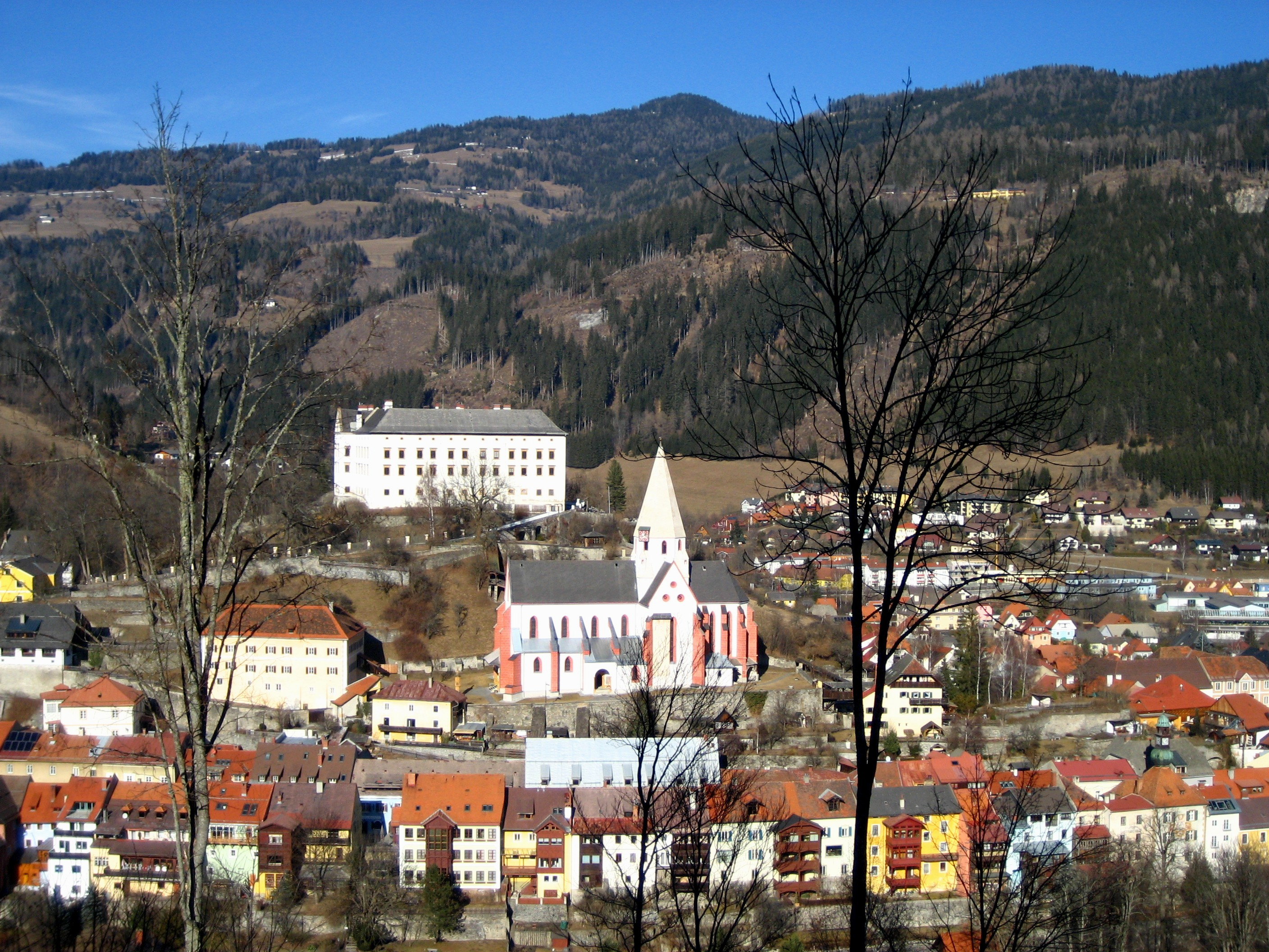 Murau in Styria, Austria